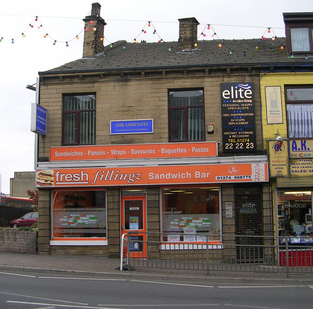 Fresh Fillingz Sandwich Bar - Leeds Road